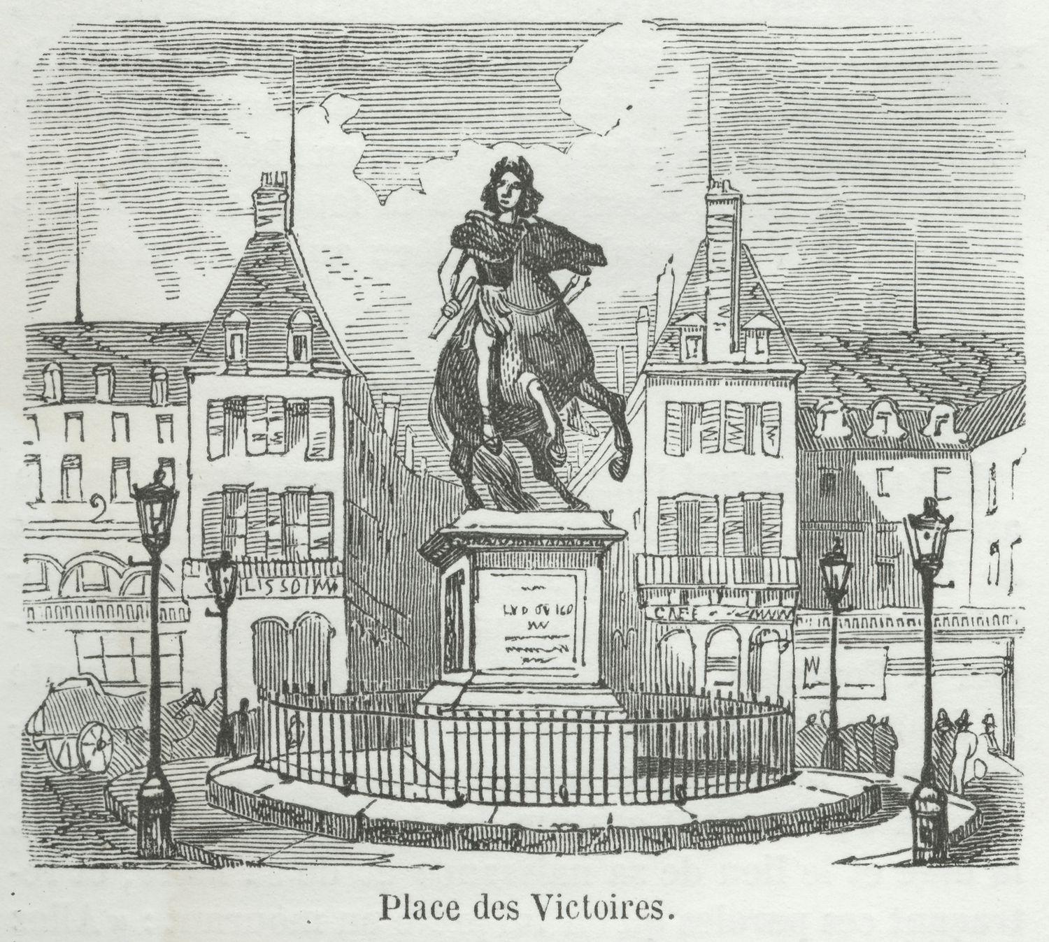 A view of the Place des victoires.